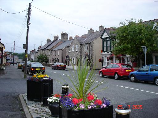 Caerwys Street of cottages in the village of Caerwys